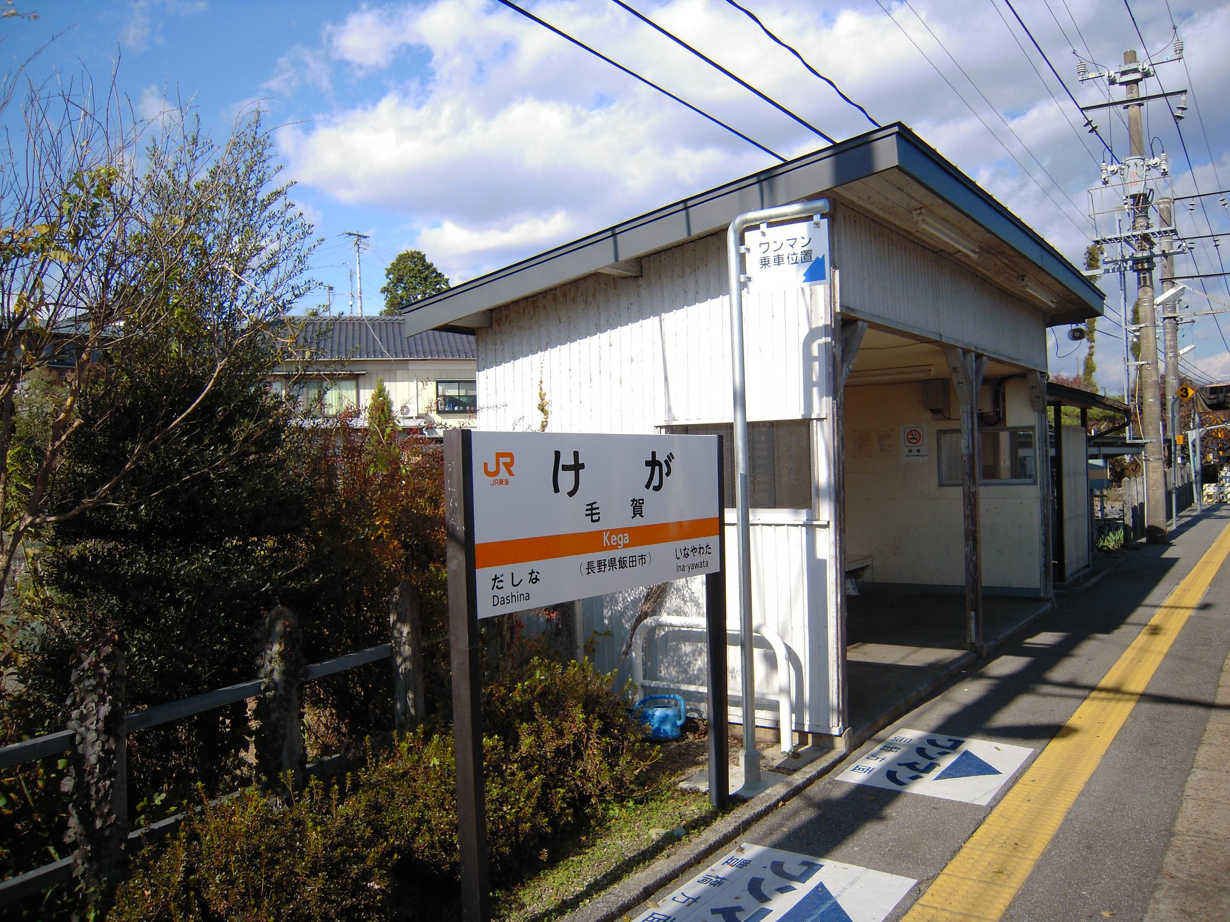 JR Iida Line Kega Station